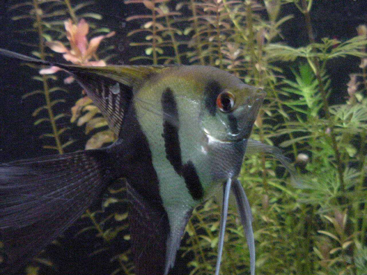 Pterophyllum scalare "Halfblack Veil"